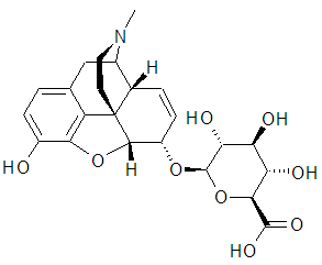 molecular form of morfine-6-glucoronide (morfine major metabolit)